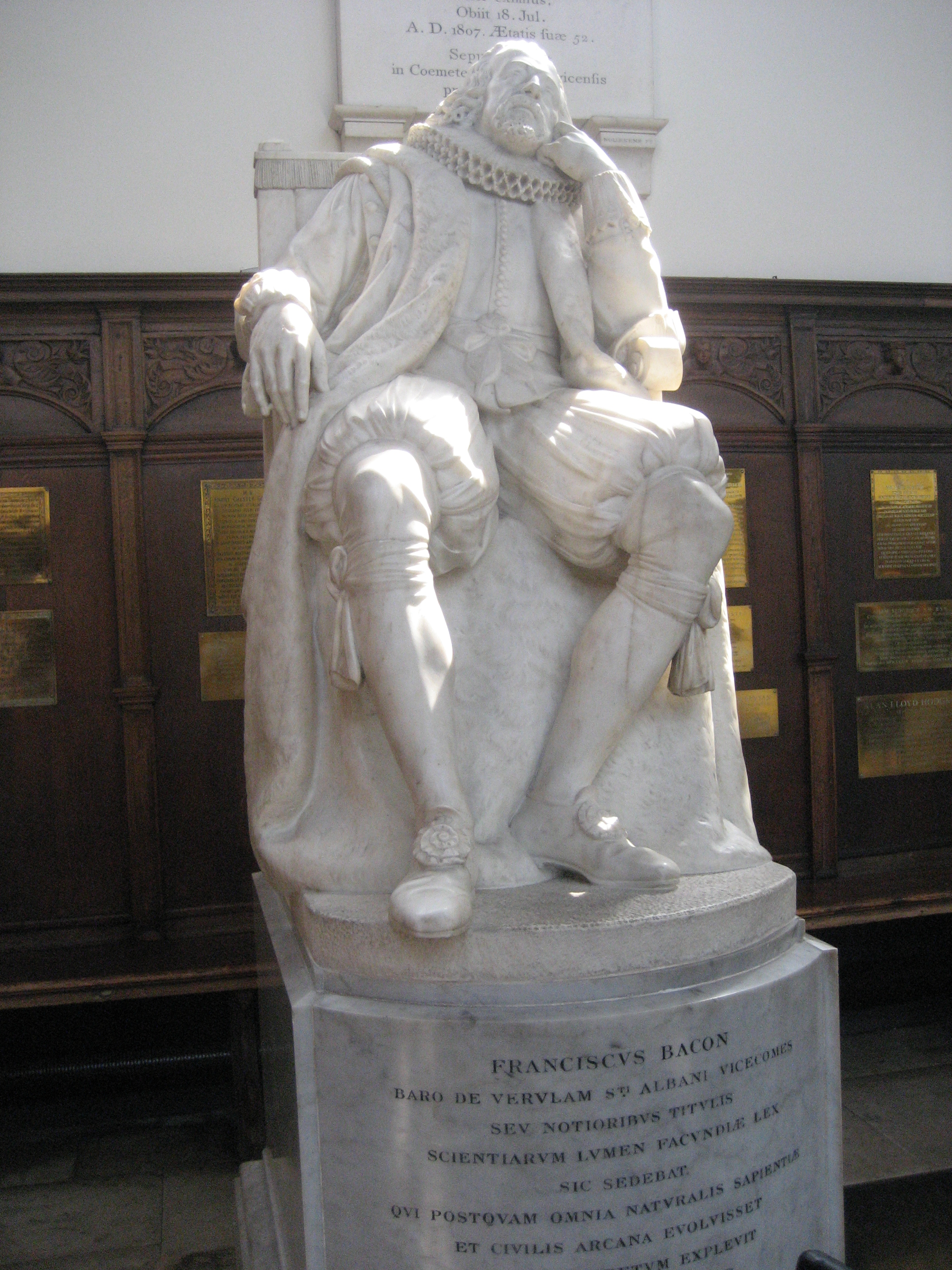 Francis Bacon in Trinity College Chapel. Sculptor: Henry Weekes. Statue commissioned by Thomas Meautys.